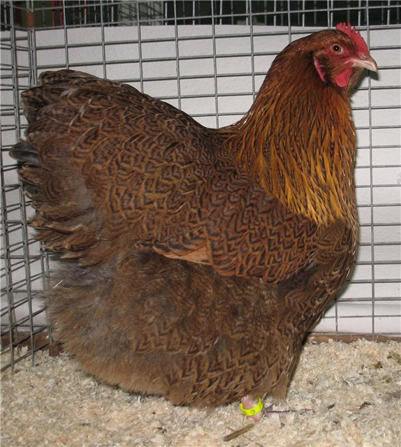 kurop